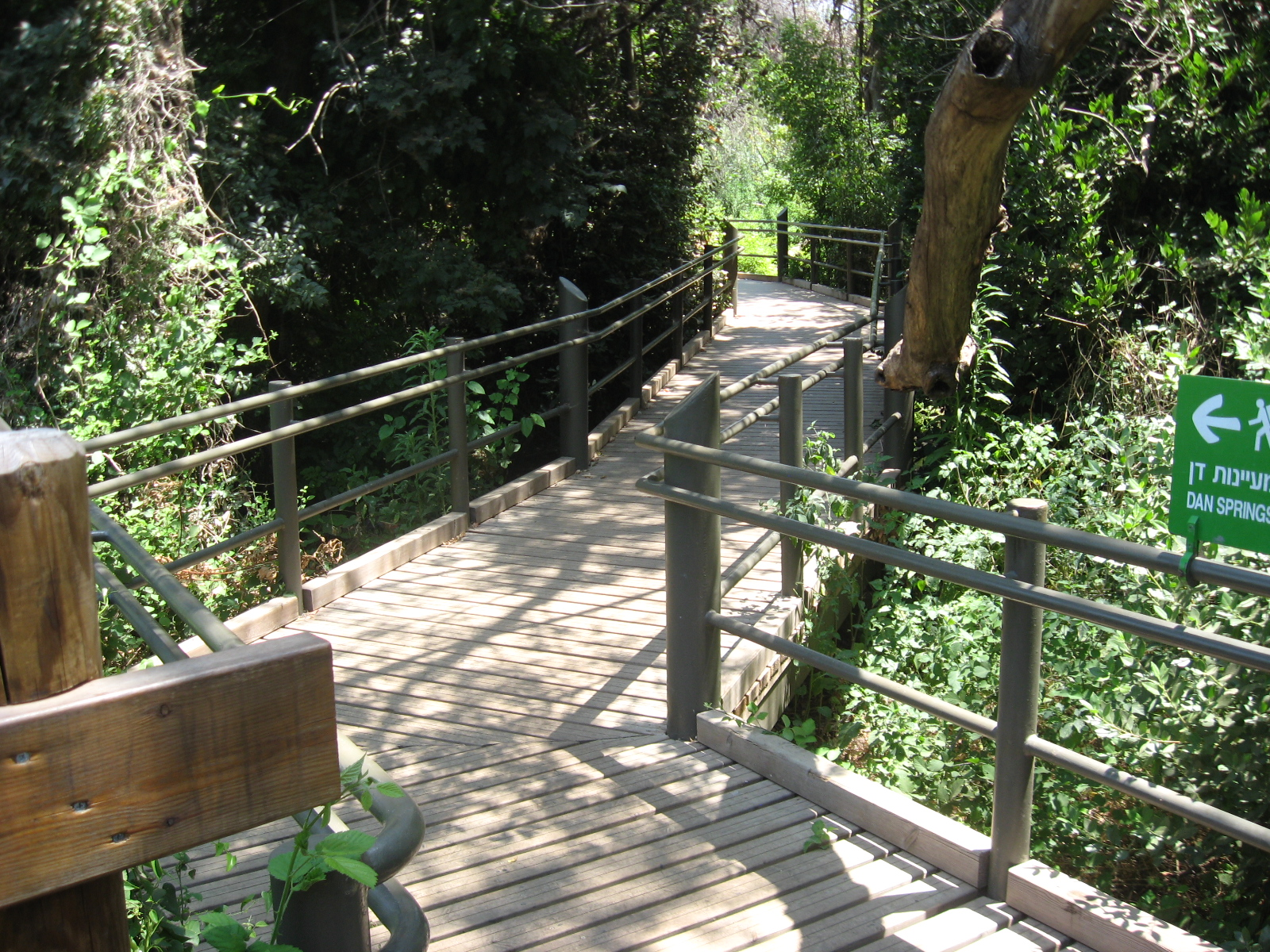 Wooden trail above Dan stream in north Israel